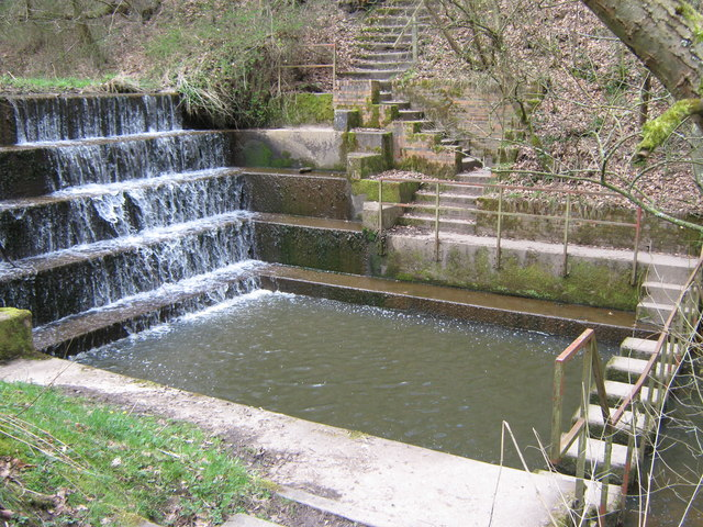 Upper weir and "stepping stones", Deep Hayes Country Park This weir is between the upper pool (Haye Pool) and the middle pool (Park Pool). The concrete stepping stones enable walkers to do one of several circular walks around the country park.